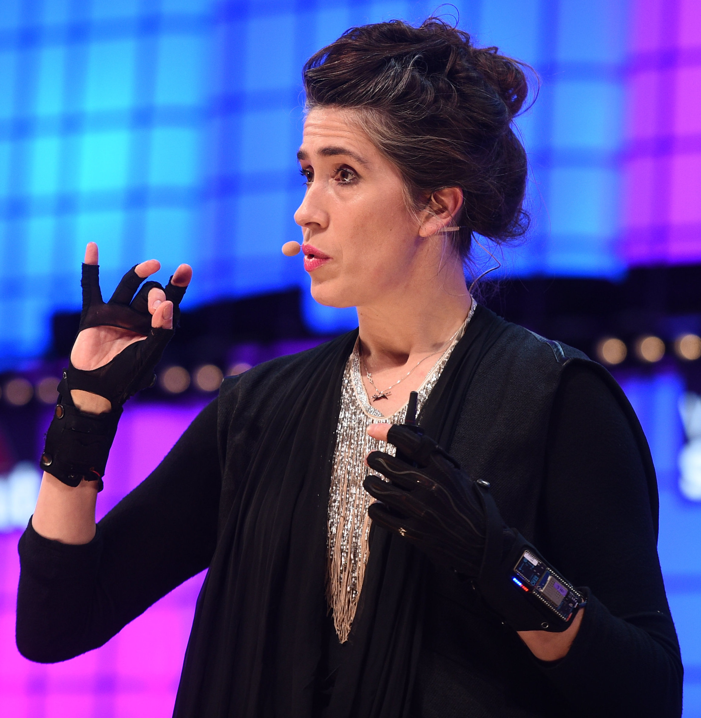 7 November 2018; Imogen Heap, Mycelia on Centre Stage during day two of Web Summit 2018 at the Altice Arena in Lisbon, Portugal. Photo by David Fitzgerald/Web Summit via Sportsfile